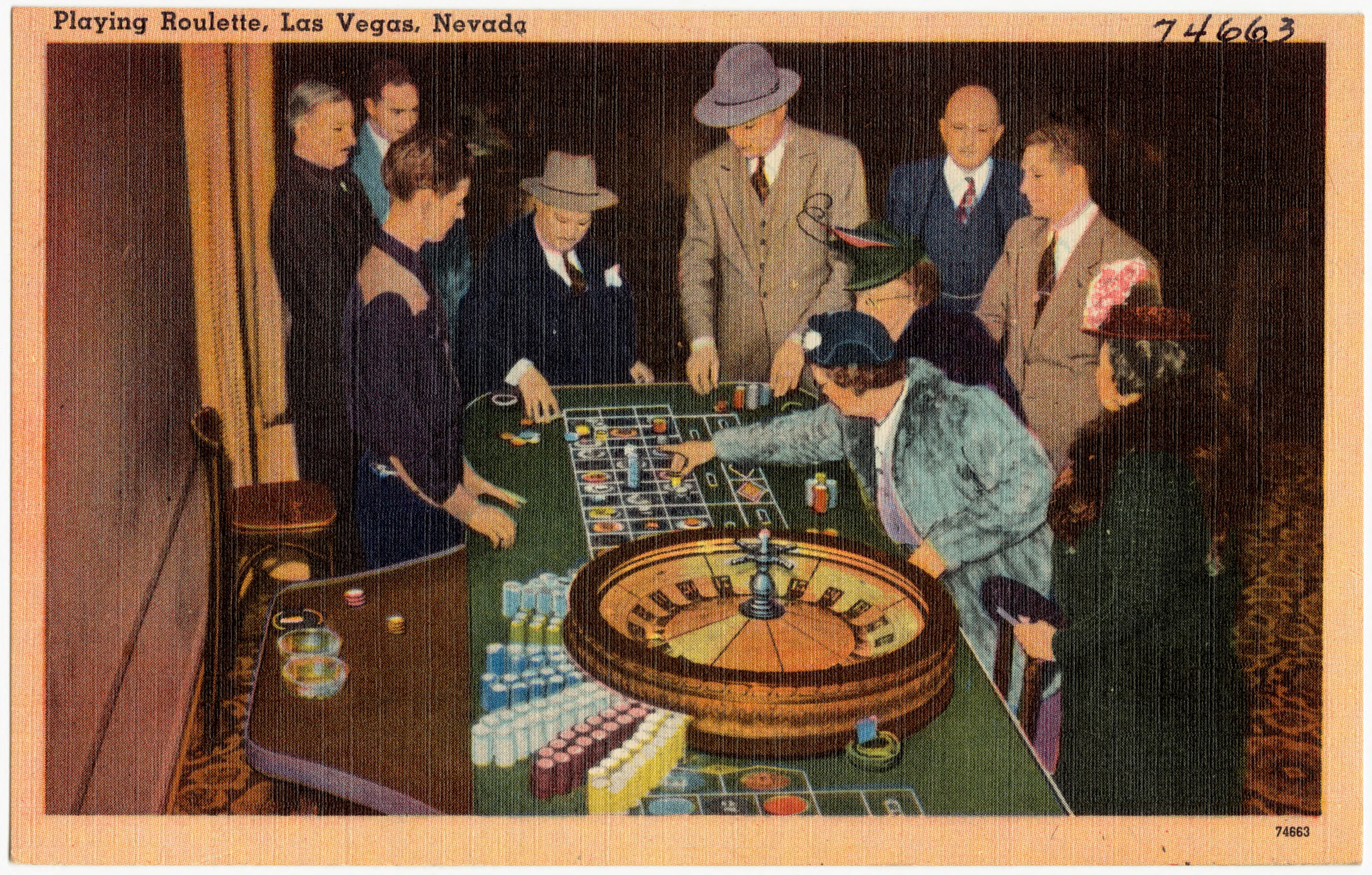 Title: Playing roulette, Las Vegas, Nevada Places: Hoover Dam Notes: Title from item. Extent: 1 print (postcard) : linen texture, color ; 3 1/2 x 5 1/2 in. Accession #: 06_10_015513